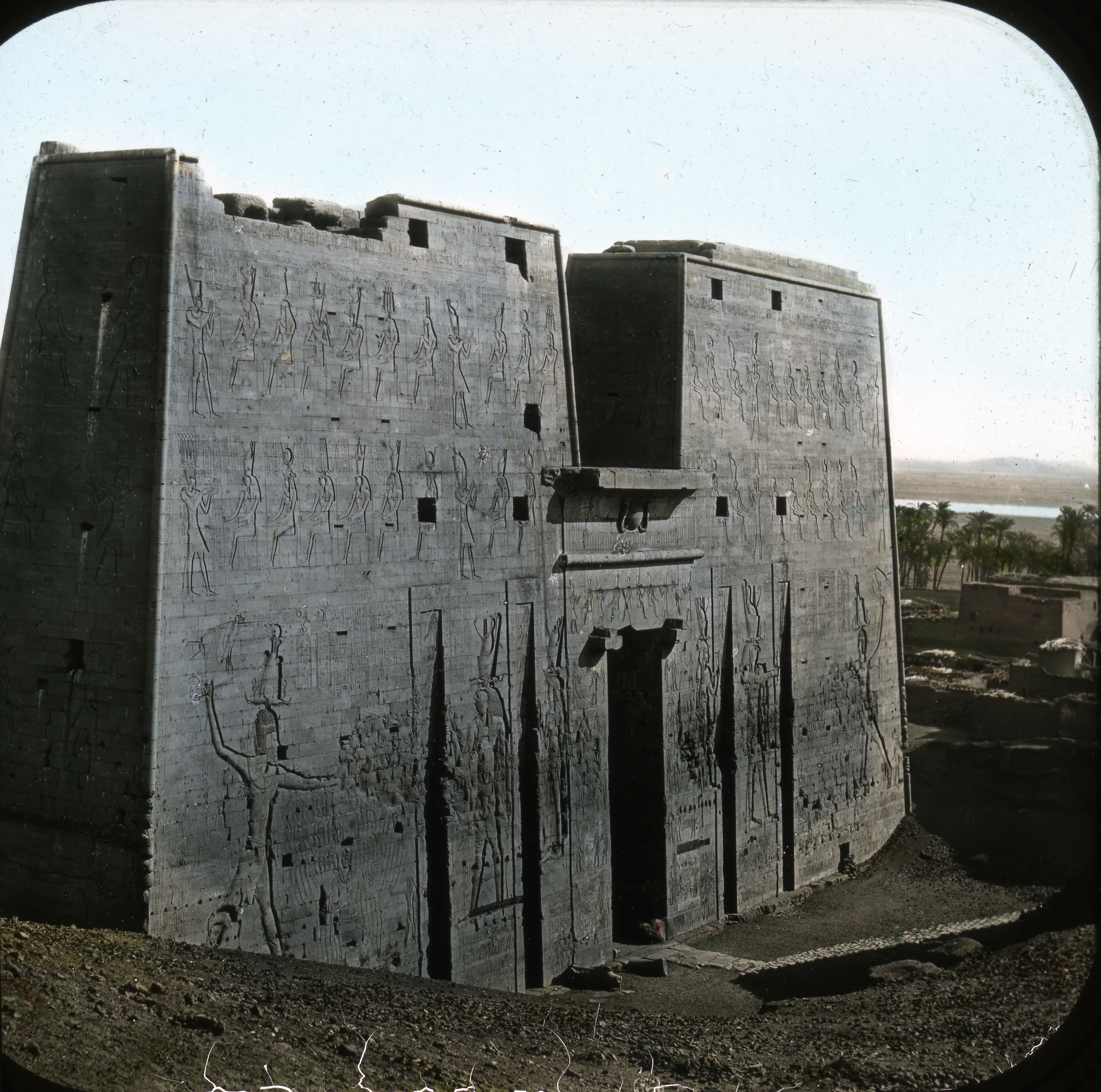 Lantern Slide Collection: Views, Objects: Egypt. Edfu [selected images]. View 04: Egypt - Edfu. The Pylon., n.d., 88 Madison St., Chicago Ill. This slide colored by Joseph Hawkes. Brooklyn Museum Archives (S10.08 Edfu, image 9887).